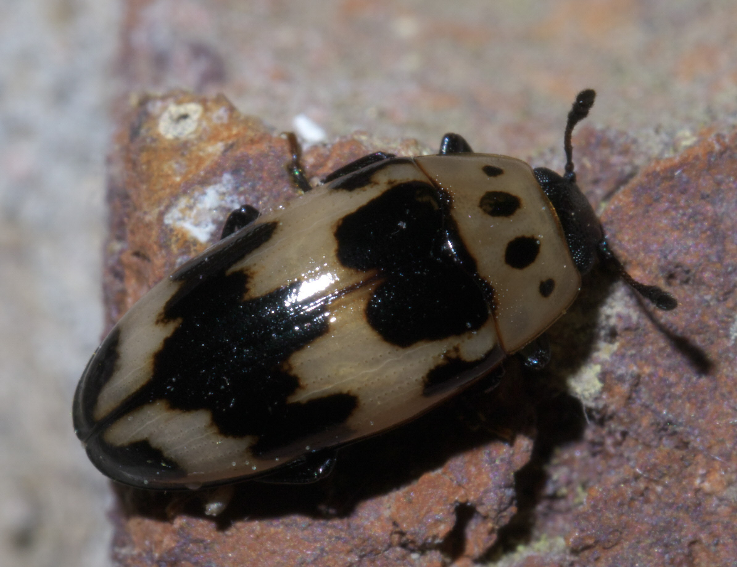 Ischyrus quadripunctatus, Four-Spotted Fungus Beetle, Size: 6.8 mm, ID Confidence: 93